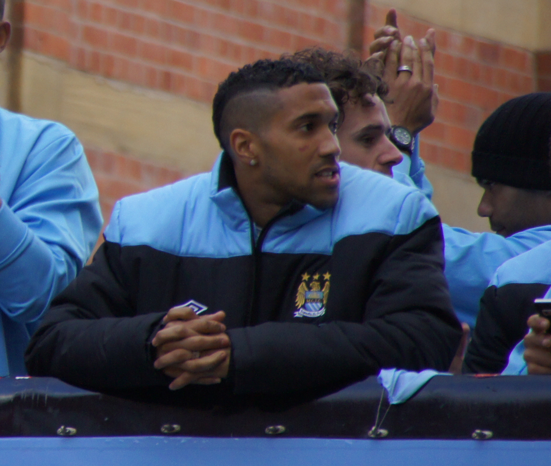 Gael Clichy in May 2012 following Manchester City's victorious Premier League season